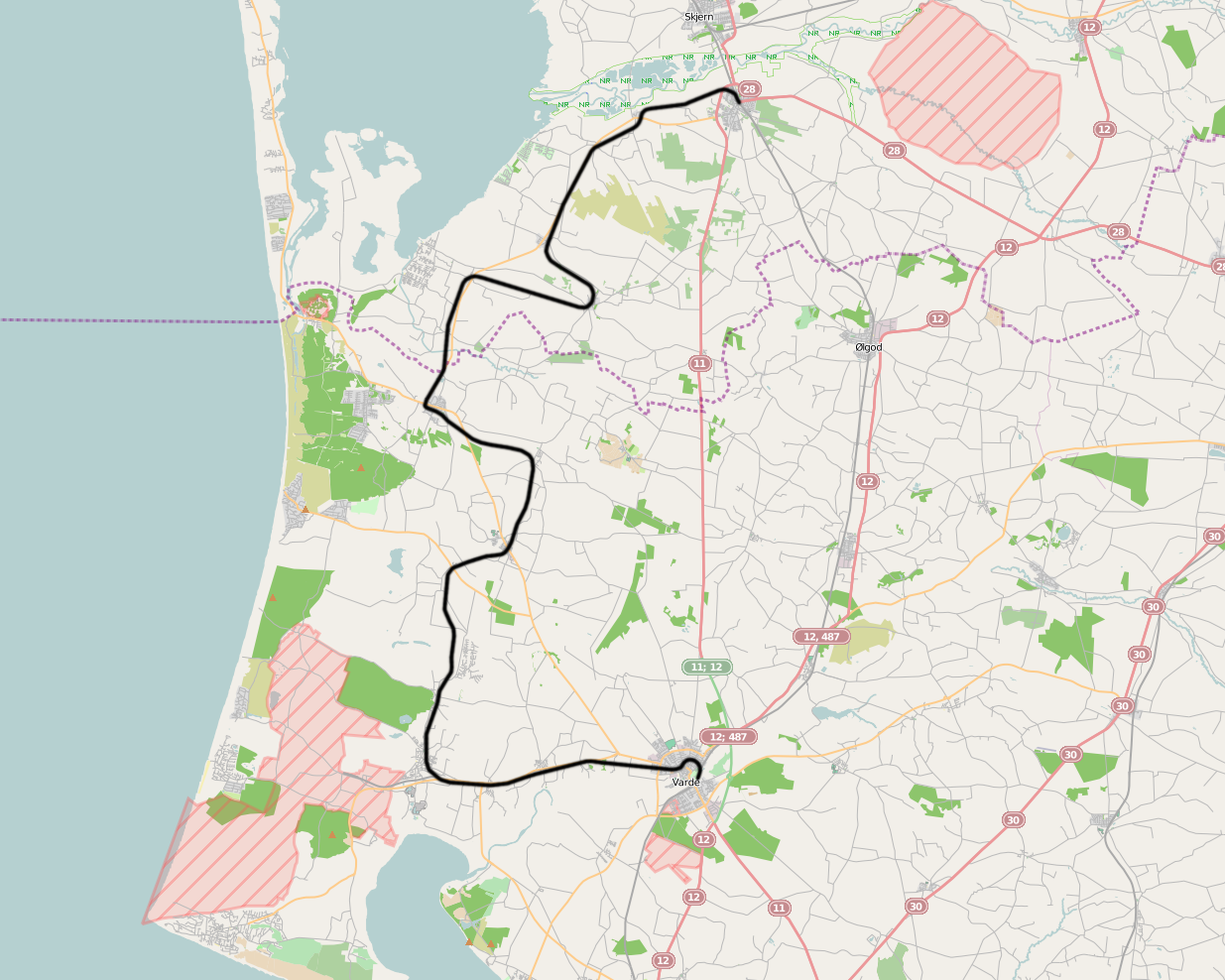 Railway line Varde - Tarm